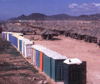 Empty tents and portable toilets at Camp Oscar, Naval Base, Guantanamo Bay, Cuba. Cuban immigrants living there were moved elsewhere on Guantanamo.